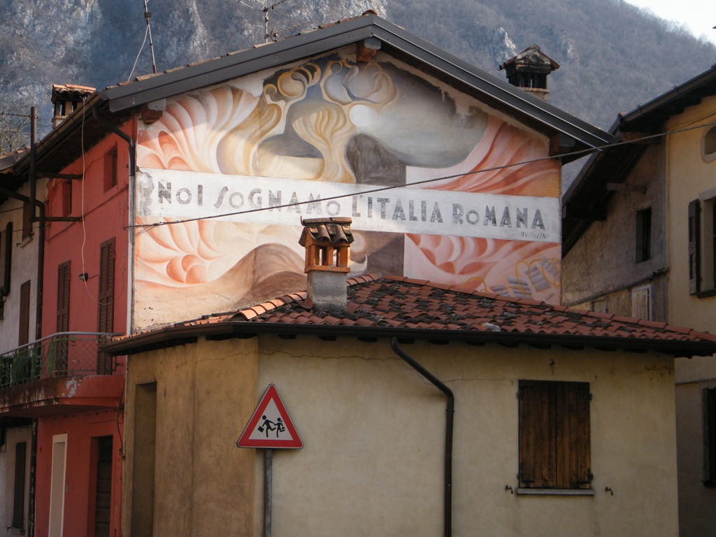 Fascist propaganda inscription. Lavenone.